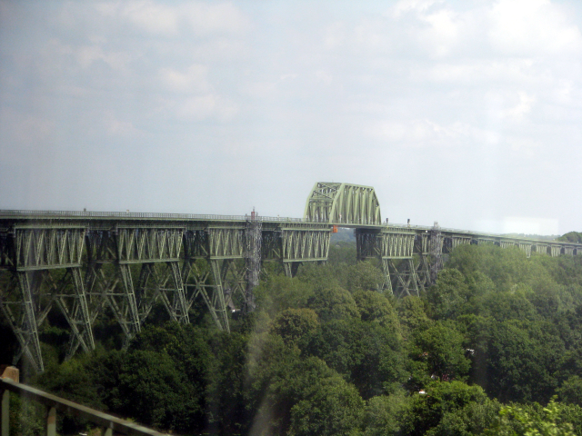 Railway bridge over the Kiel Canal in Hochdonn as seen from the western terminus of the bridge